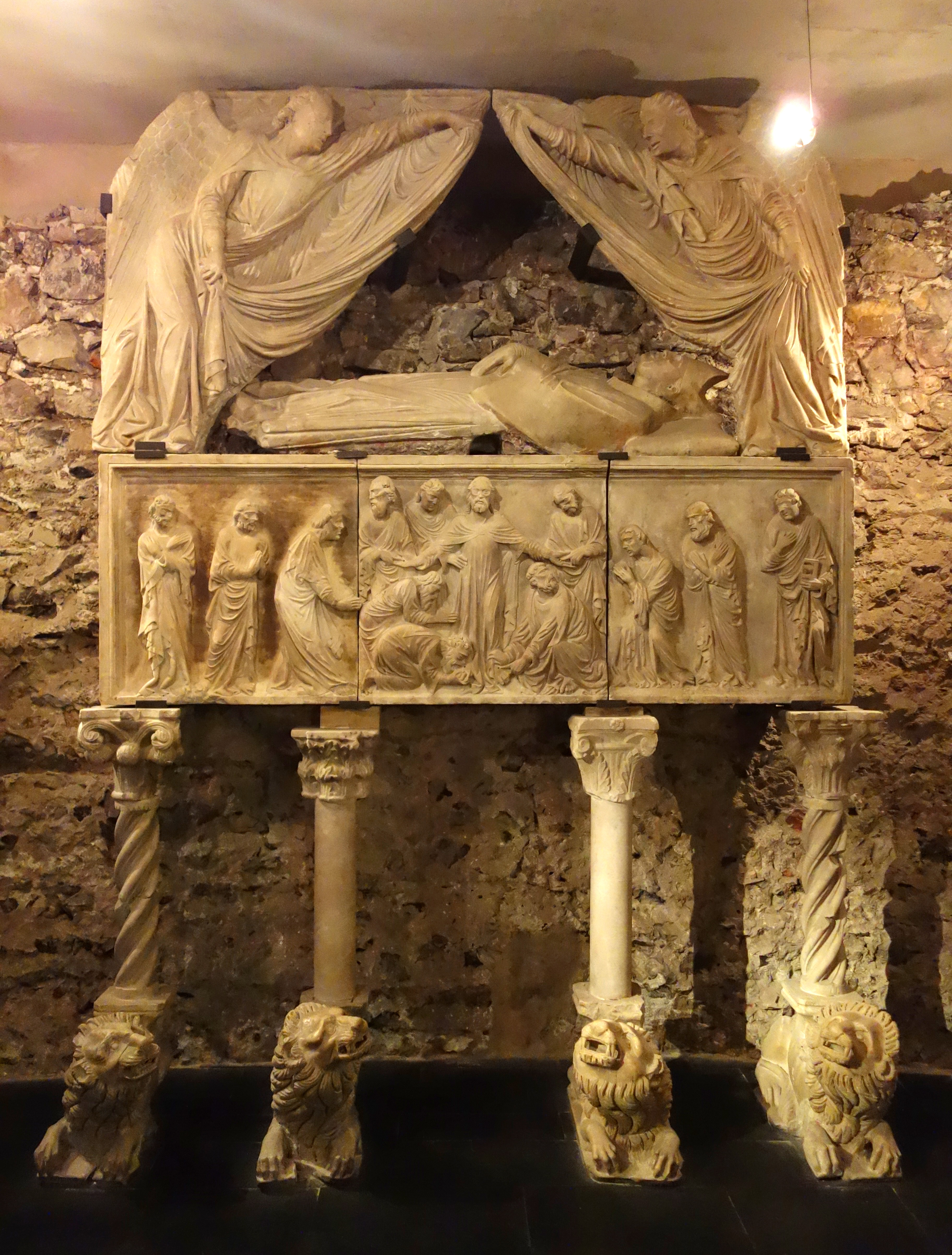 Exhibit in Museo Diocesano, Via Tommaso Reggio, 20 r, Genoa, Italy. All artwork in this museum is old enough so that it is in the public domain.